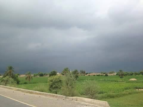 Green Agriculture City Jalalpur Pirwala